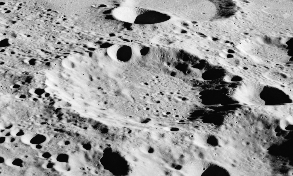 Oblique view of Donner crater, on the moon, facing south